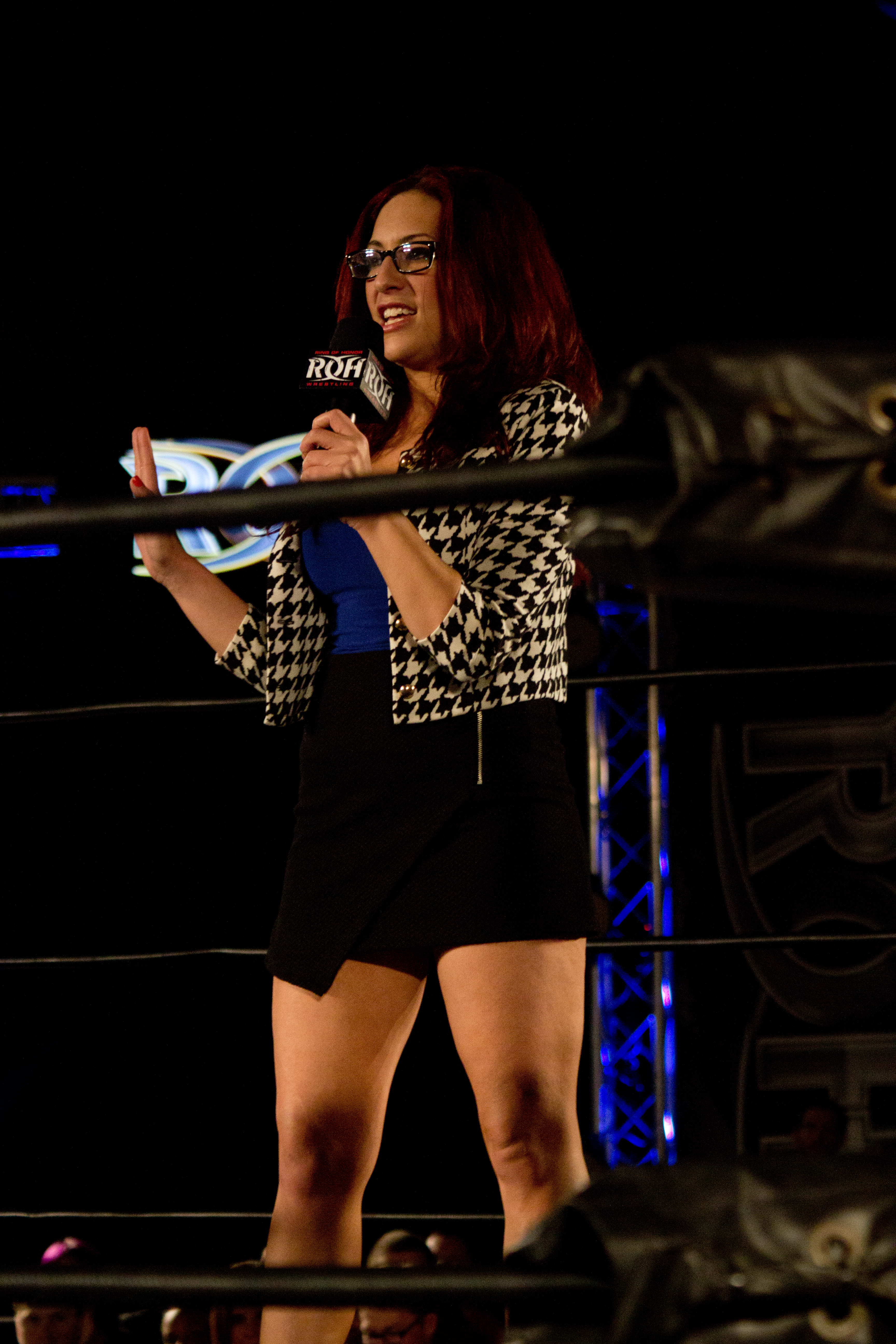 ROH holds its first event in Nashville, TN - taping 4 episodes of ROH TV. Veda Scott performing a promo.